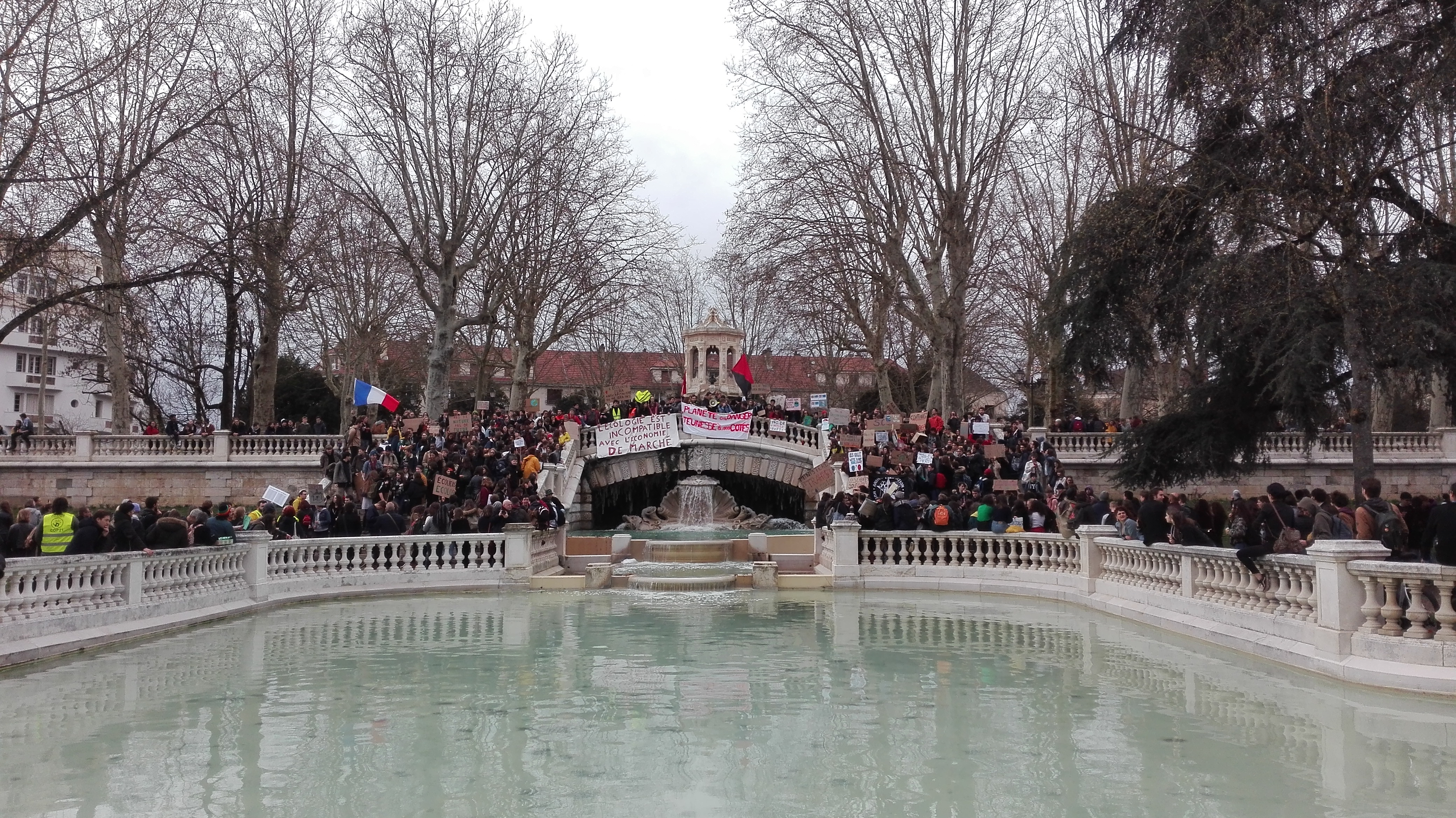 Speech at the end of a demonstration in Dijon (Côte-d'Or, Burgundy, France), related to the global strike of students against climate change, 15/03/2019. The speech is delivered by a spokeswoman of the high school students, from the stairs of the Jardin Darcy.